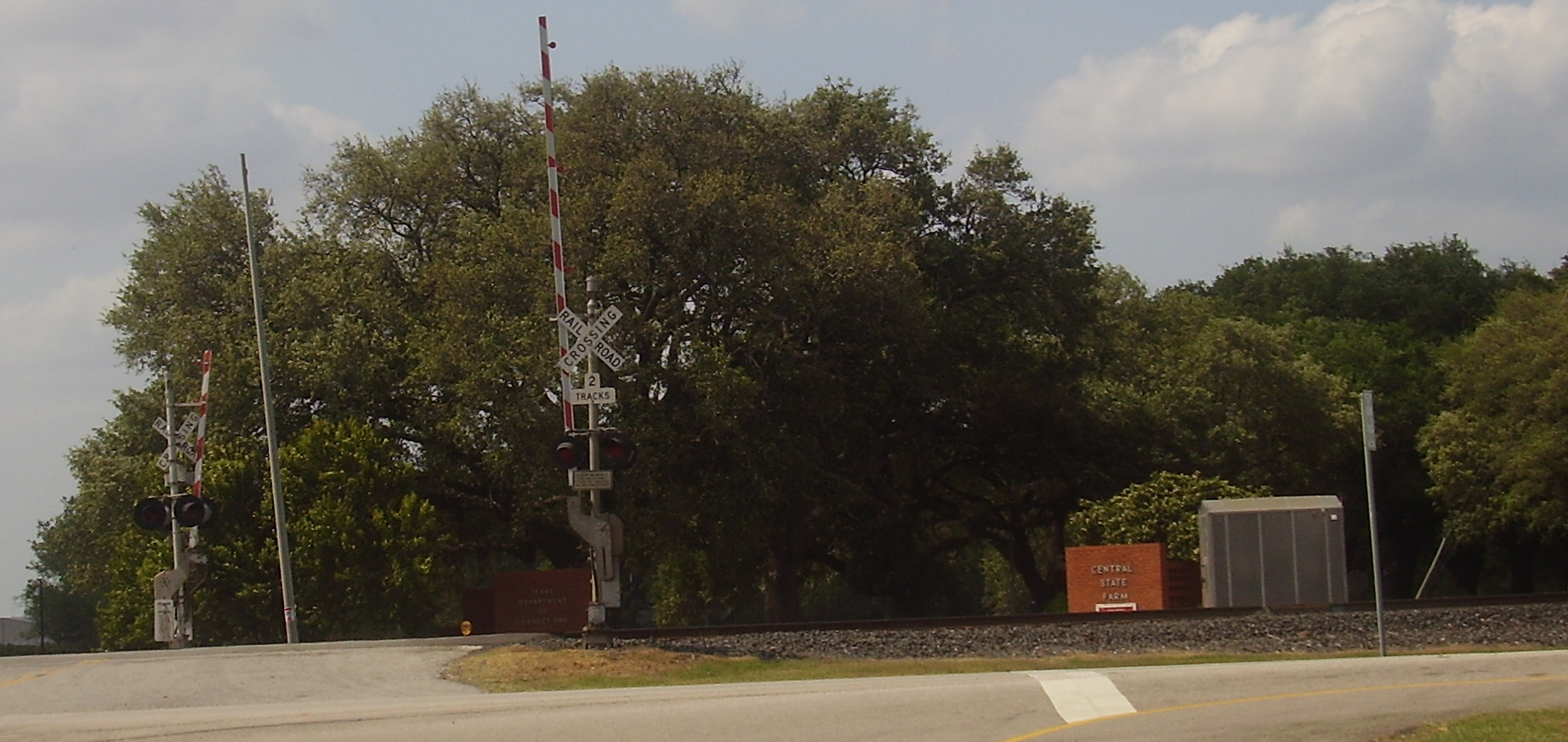 Entrance to the Central Unit